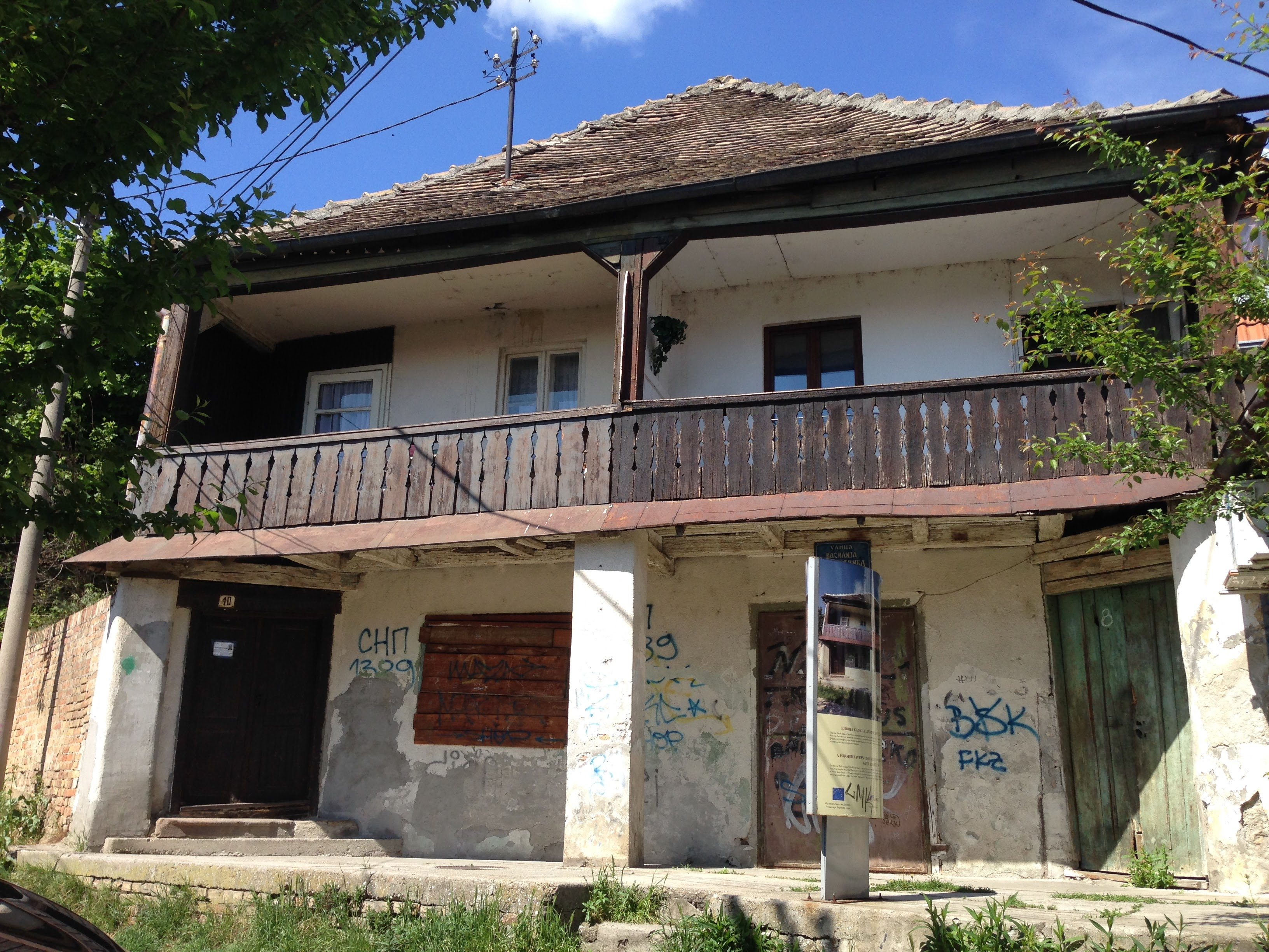 A former tavern Beli medved (the white bear) with a dungeon, Zemun, Serbia